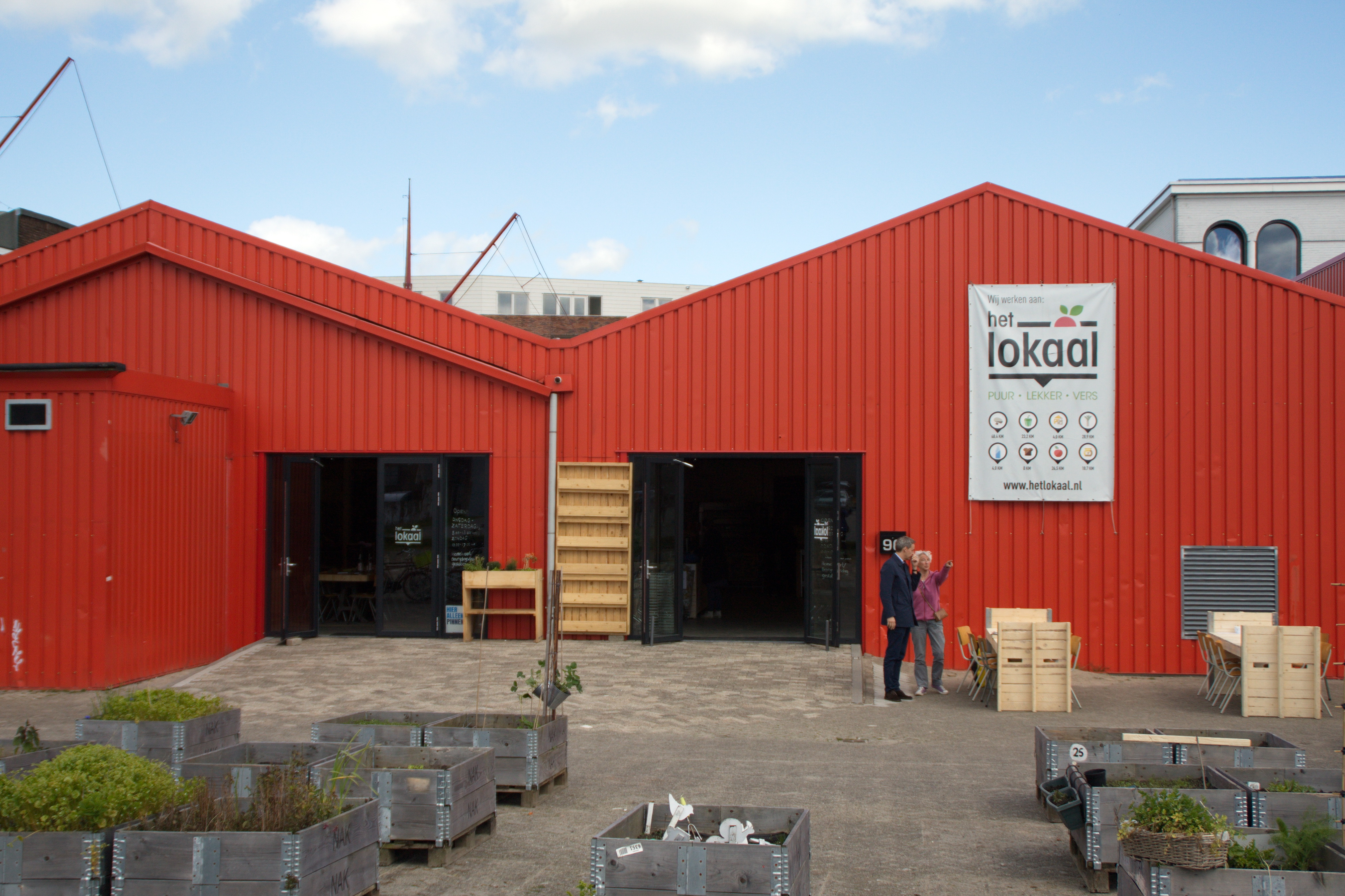 Het Lokaal, foodhal in the city centre of Amersfoort. We base ourselves in two old sheds of the former adhesive and SOAP factory in the new city, located on the Eem. Amersfoort, The Netherlands